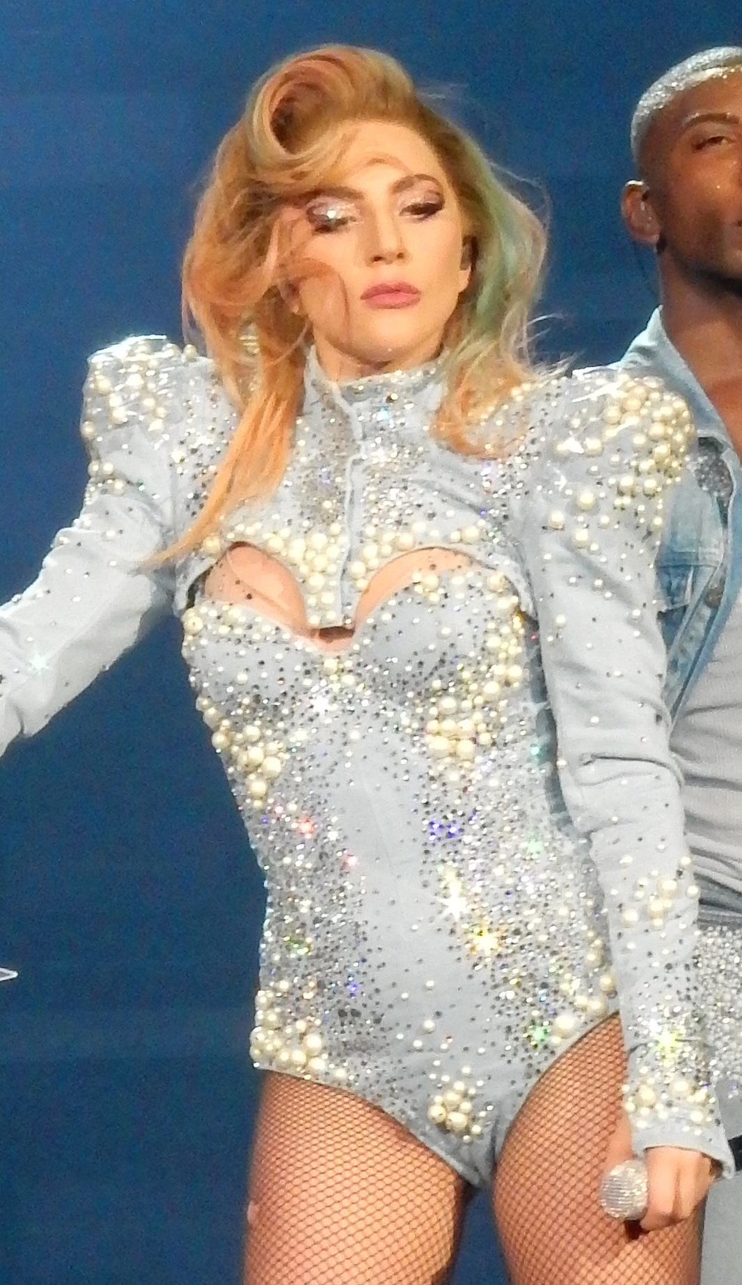 Lady Gaga performing at Arena Birmingham for the Joanne World Tour, January 31st 2018